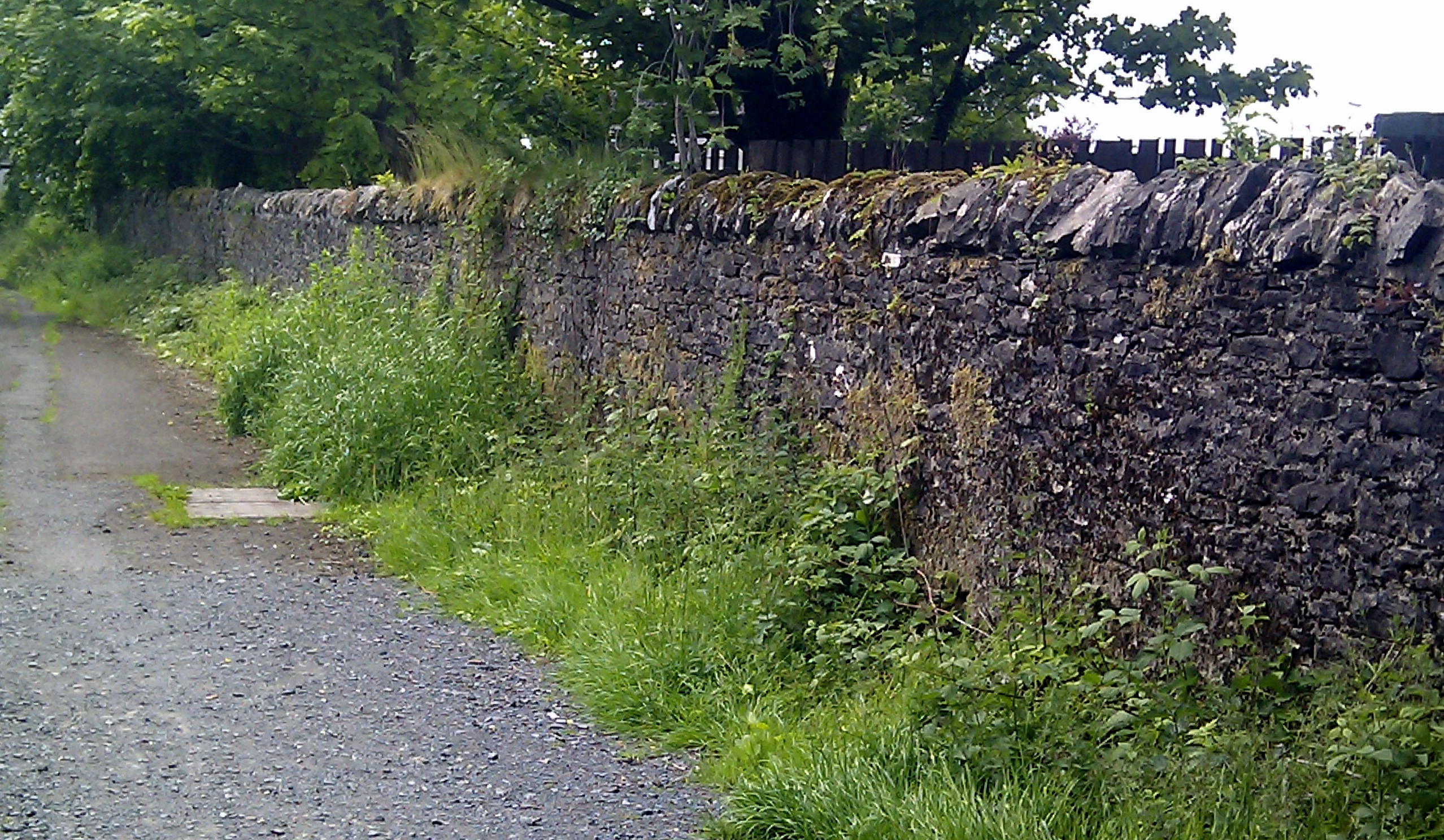 The old Morishill Estate boundary wall, Beith, North Ayrshire, Scotland.